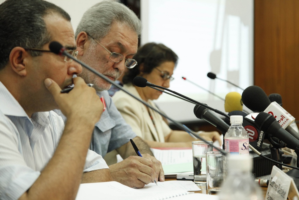 Press conference of the High and Independent Instance for the Elections in Tunisia, with Kamel Jendoubi